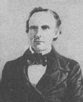 Branch Tanner Archer from The Medical Story of Early Texas (1876). Texas State Library and Archives.